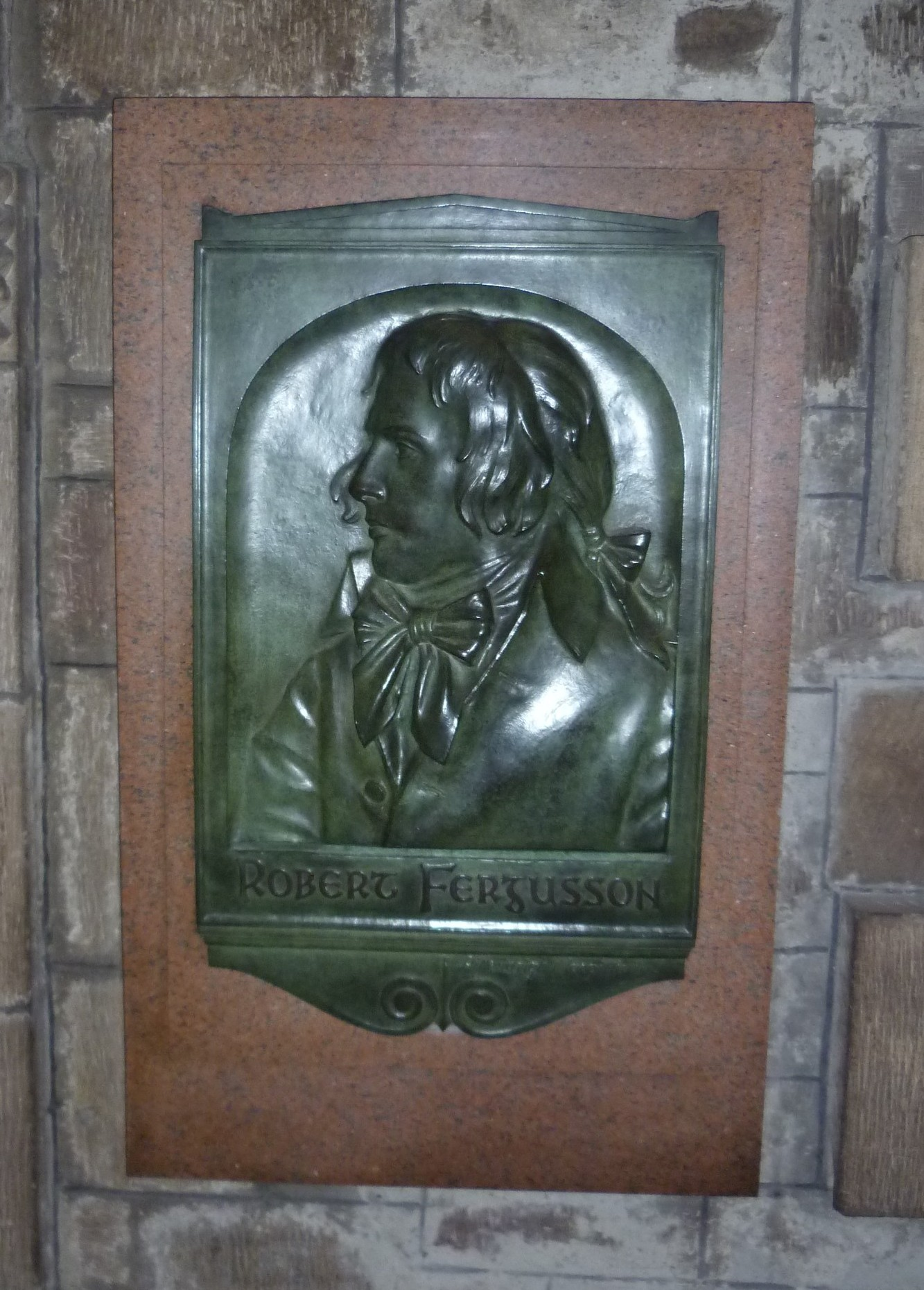 Plaque in memory of Robert Fergusson in St Giles' High Kirk, Edinburgh, Scotland